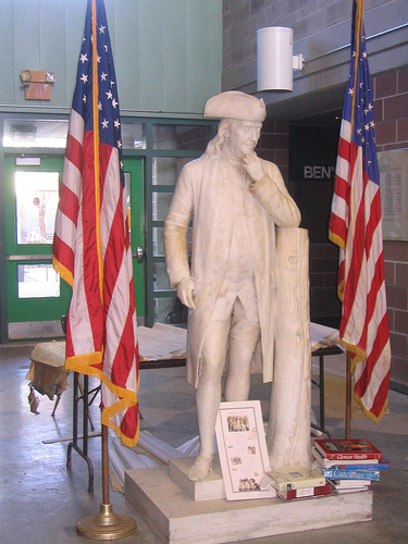 This statue of Benjamin Franklin, commissioned in 1844 and created by sculptor Herman Powers, stands in the atrium of Benjamin Franklin High School (New Orleans, Louisiana)